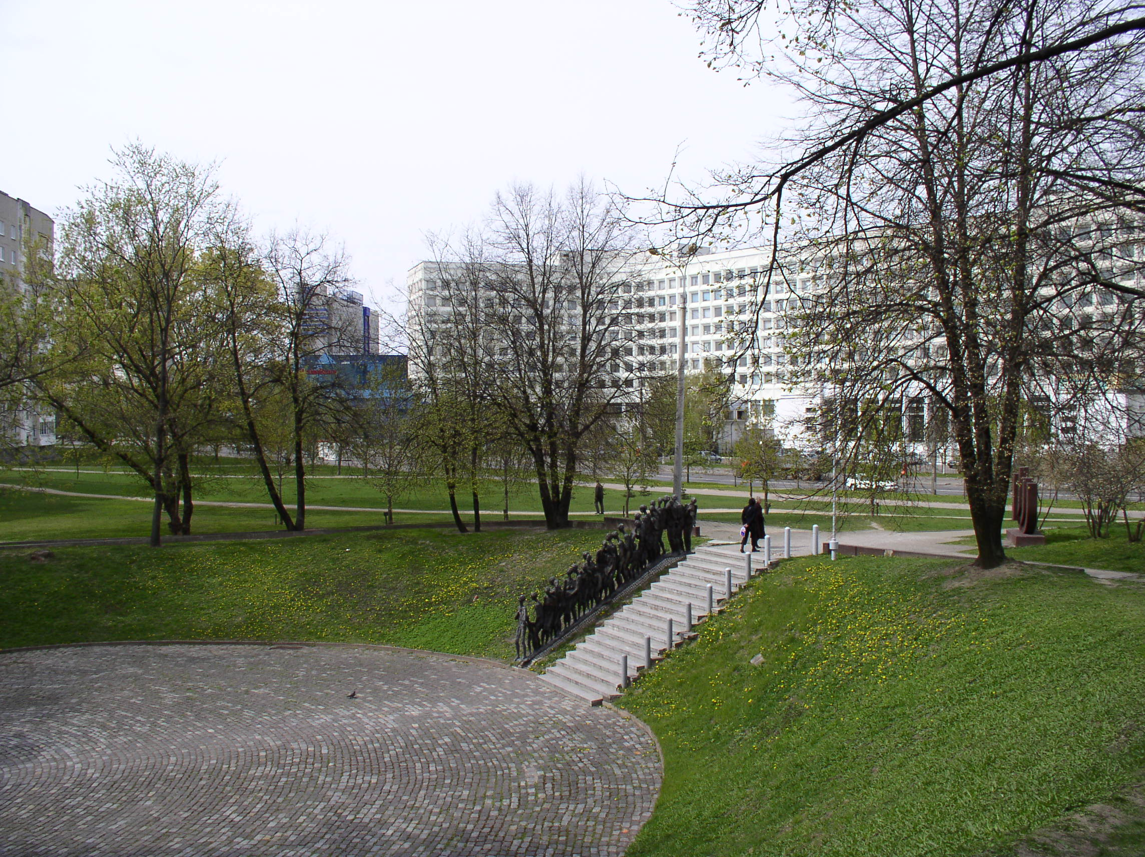 Memorial "Pit". Minsk, Belarus.